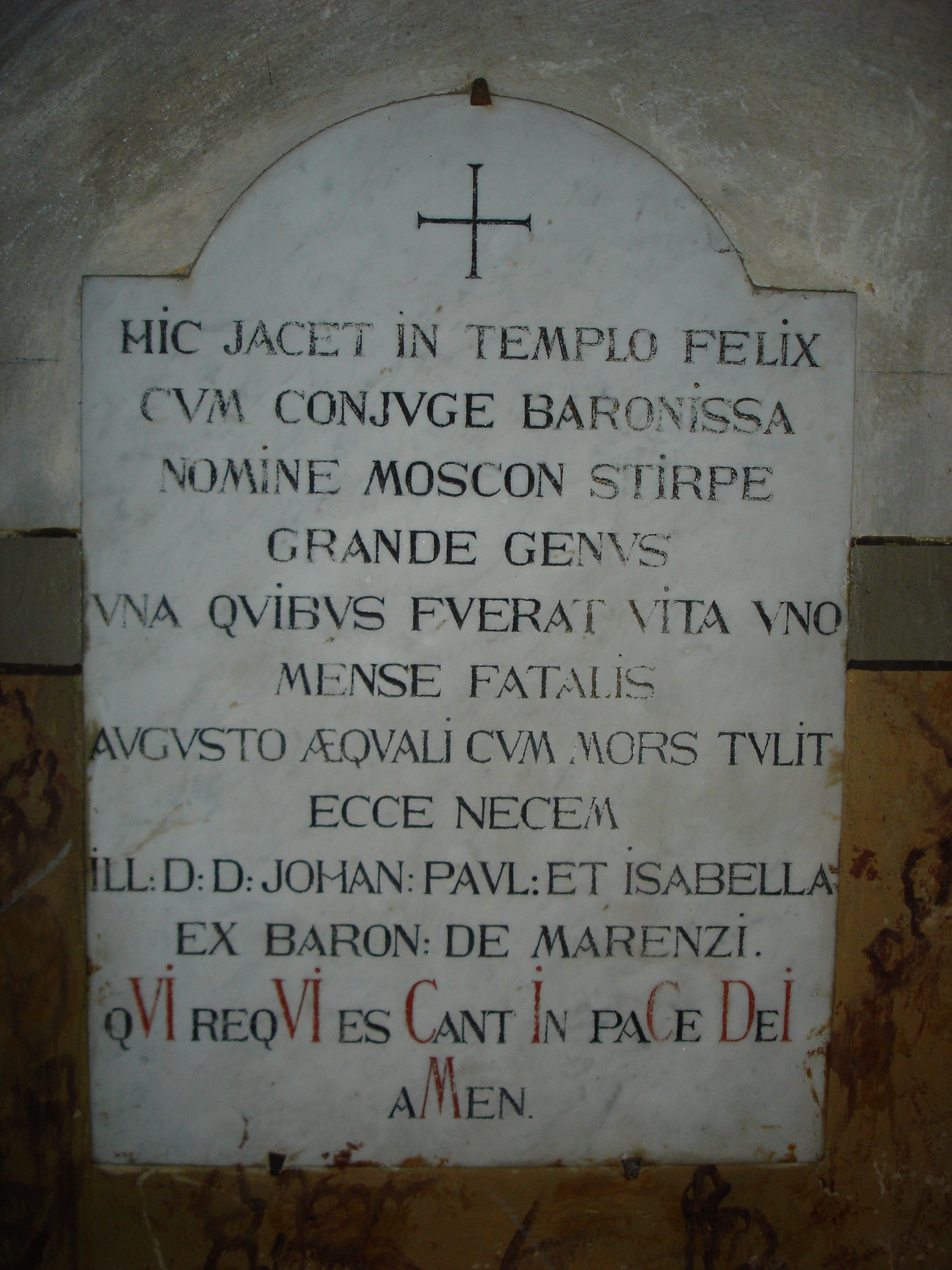 The memorial tablet of Moscon family in Saint Michael church in Pišece. The last line is a chronogram. Chronogram: qVI reqVIes Cant In paCe DeI aMen. V + I + V + I + C + I + C + D + I + M 5 + 1 + 5 + 1 + 100 + 1 + 100 + 500 + 1 + 1000 1714